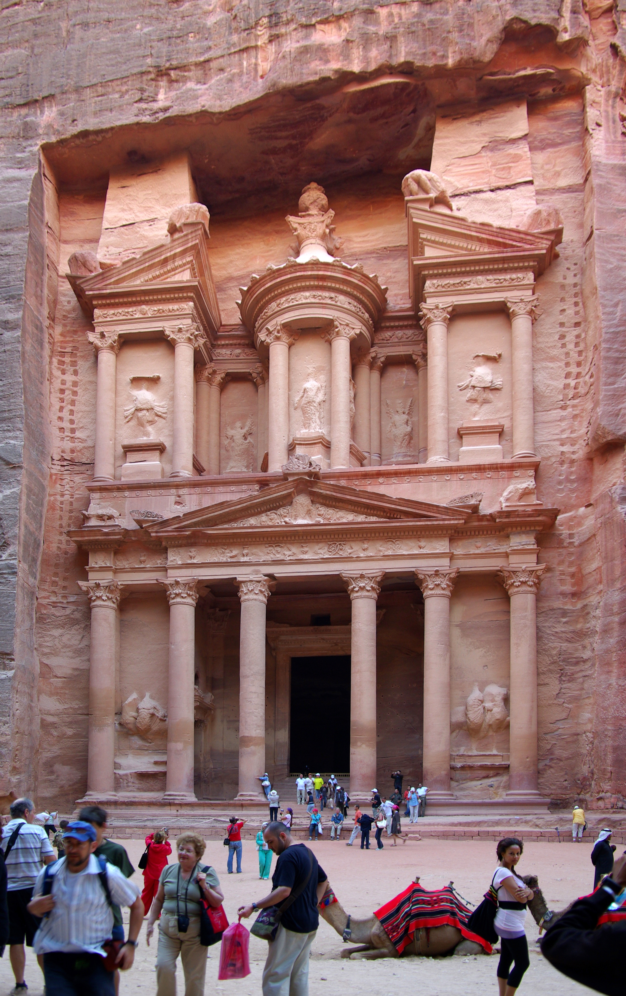 Petra, Al Khazneh